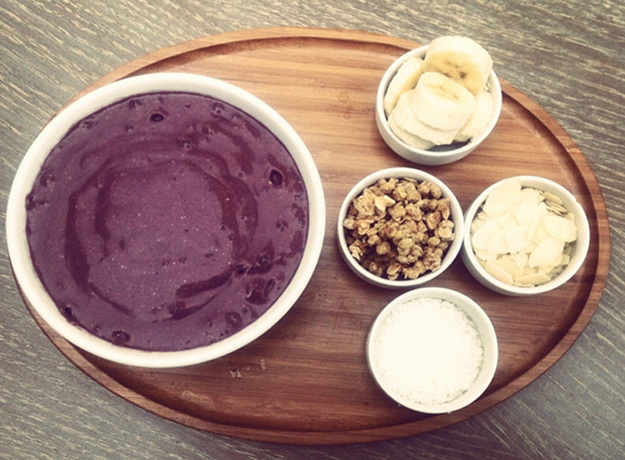 Açaí na tigela - popular Brazilian dish